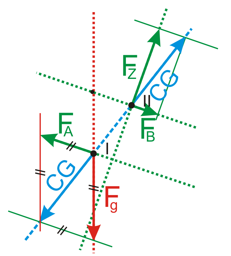 The Culmann method in 4 Steps